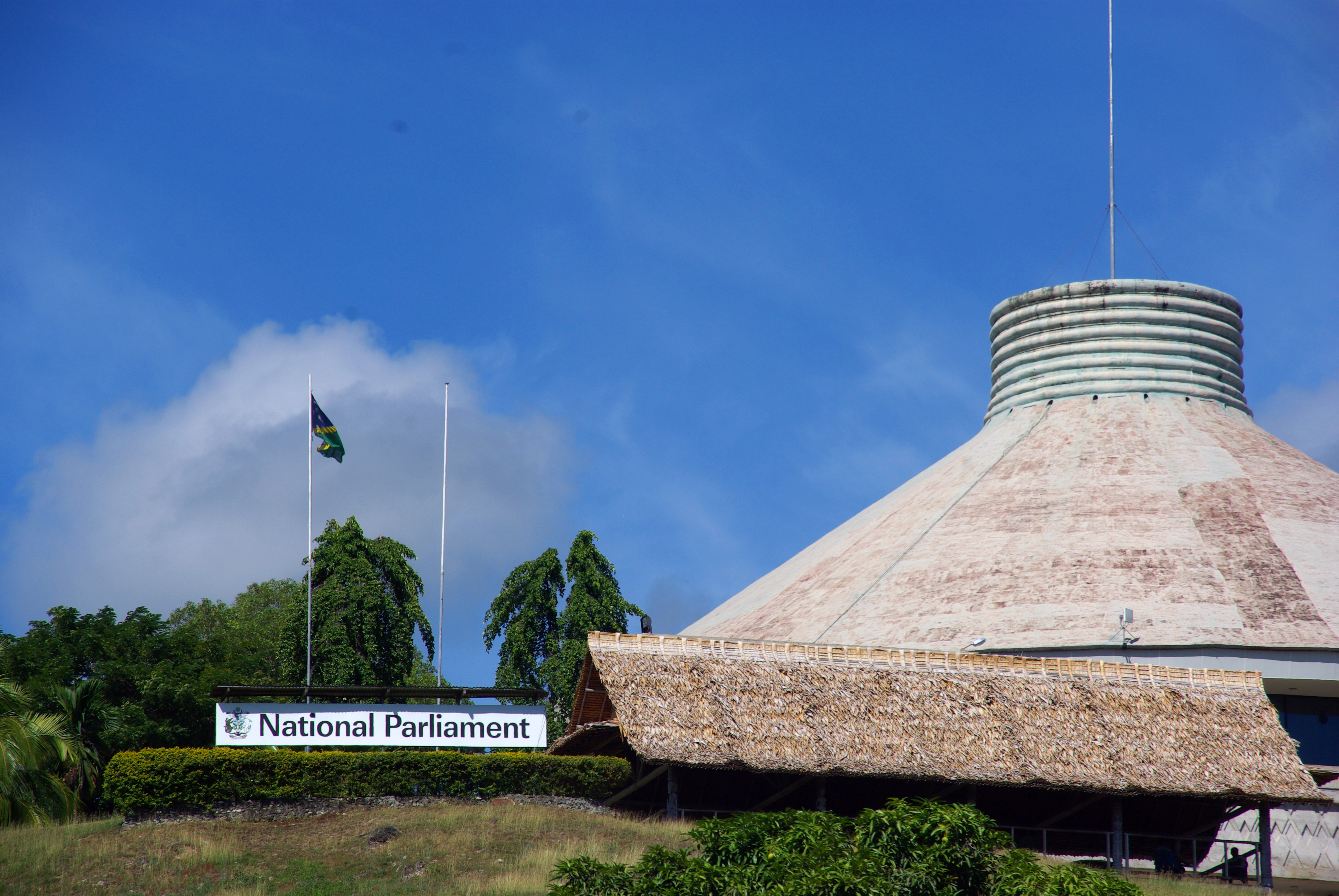 Long shot of the Solomon Islands Parliament House. Photo taken by Irene Scott for AusAID. (13/2529)